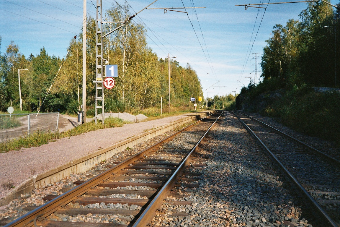 Mankki railway station in Espoo, Finland, look to east.